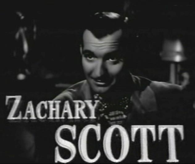 Cropped screenshot of Zachary Scott from the film Mildred Pierce (film)